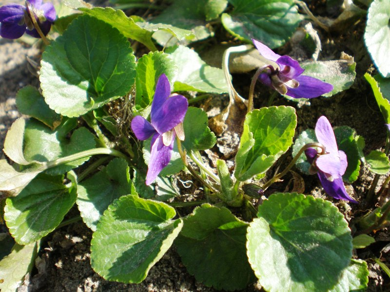 Sweet violet (Viola odorata)